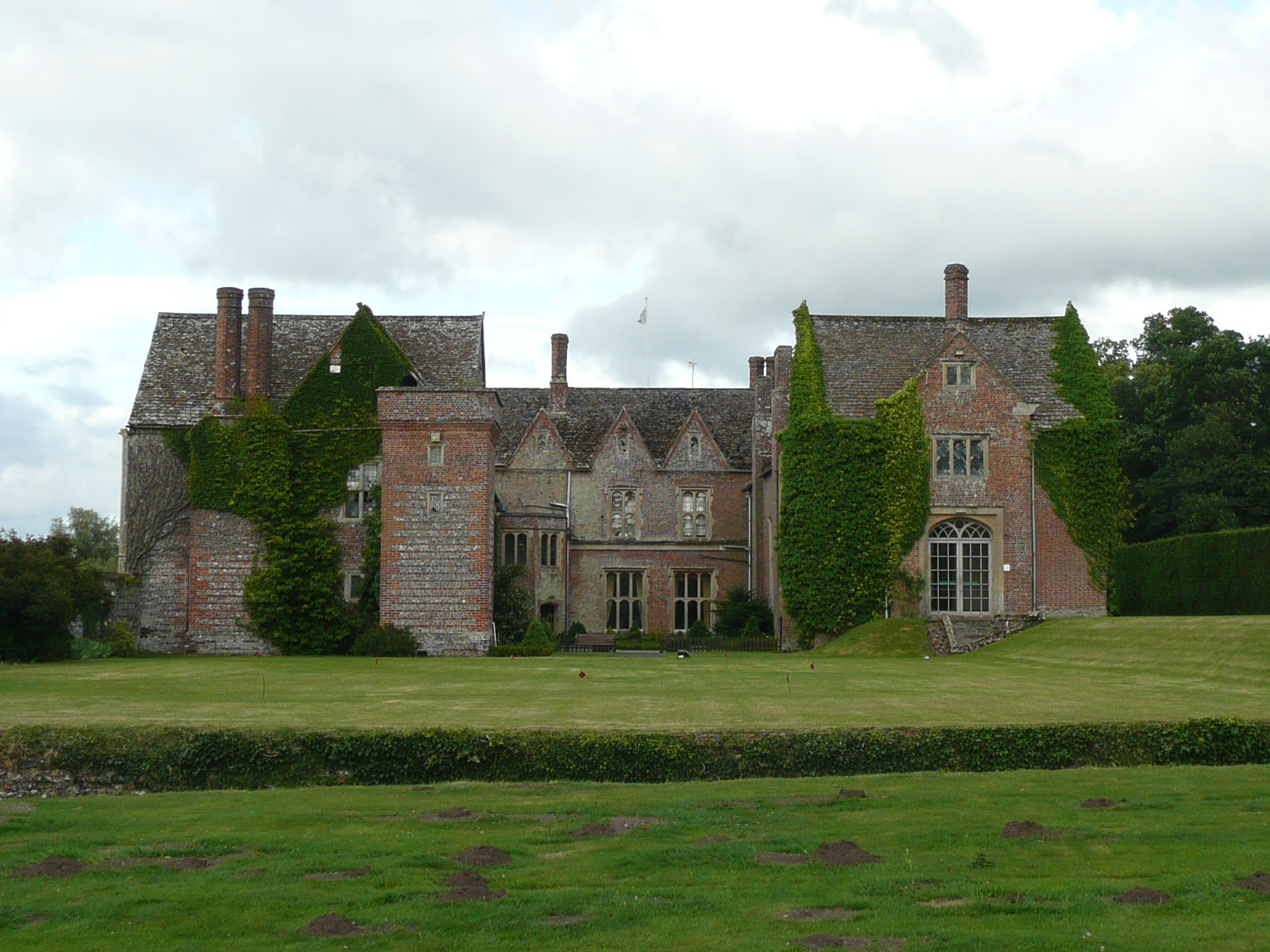 Littlecote House, Elizabethan country house and estate in the civil parishes of Ramsbury and Chilton Foliat in the English county of Wiltshire.